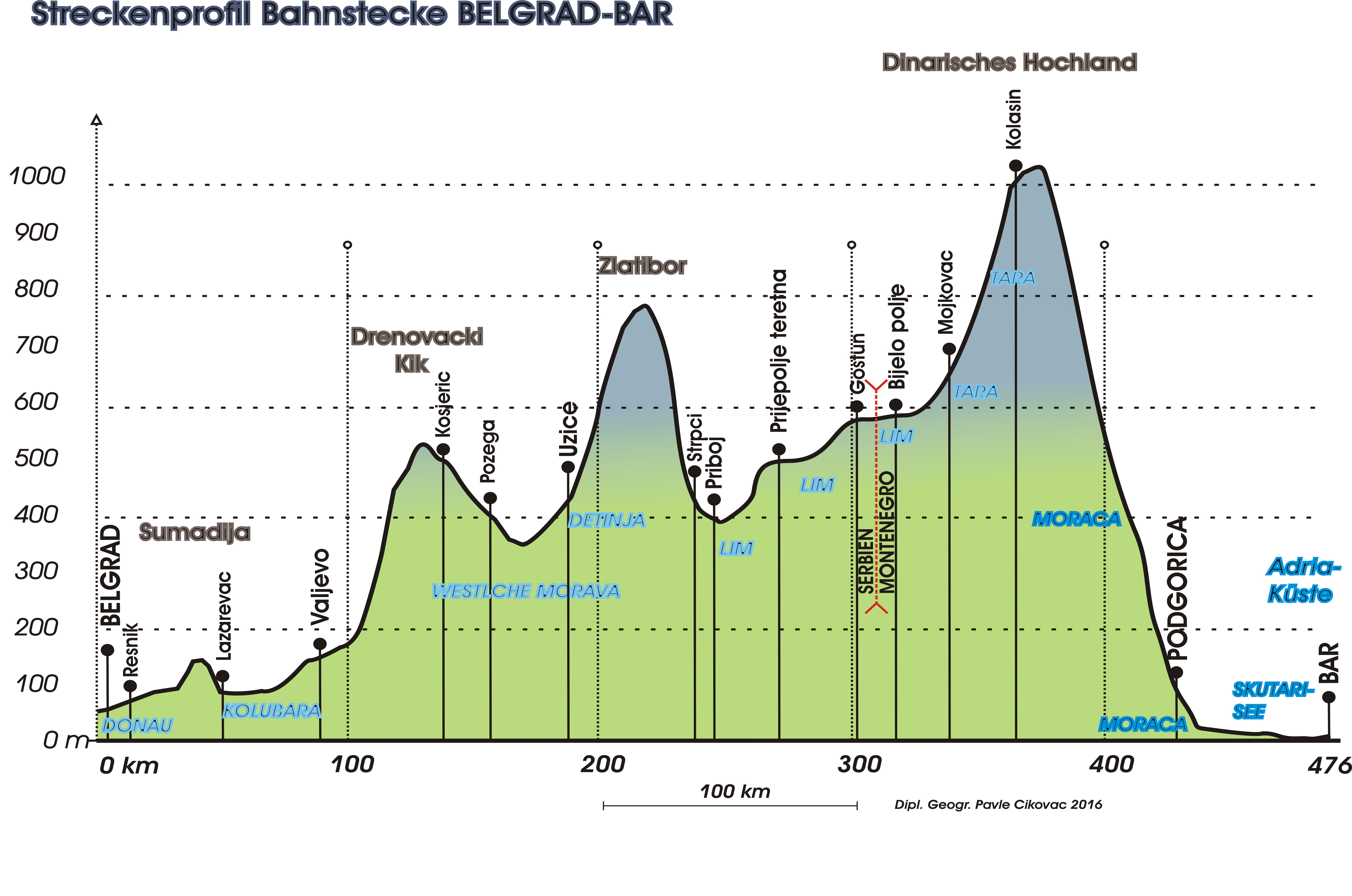 Profile of the Belgrade-Bar railroad. Cliches after Paul Delacroix, La vie du rail, 1. Aout 1976, nr. 1551, pages 811